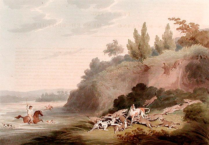 Hunting Jackalls/La Chase aux Jackals by Samuel Howitt, Publisher: Thomas McLean London